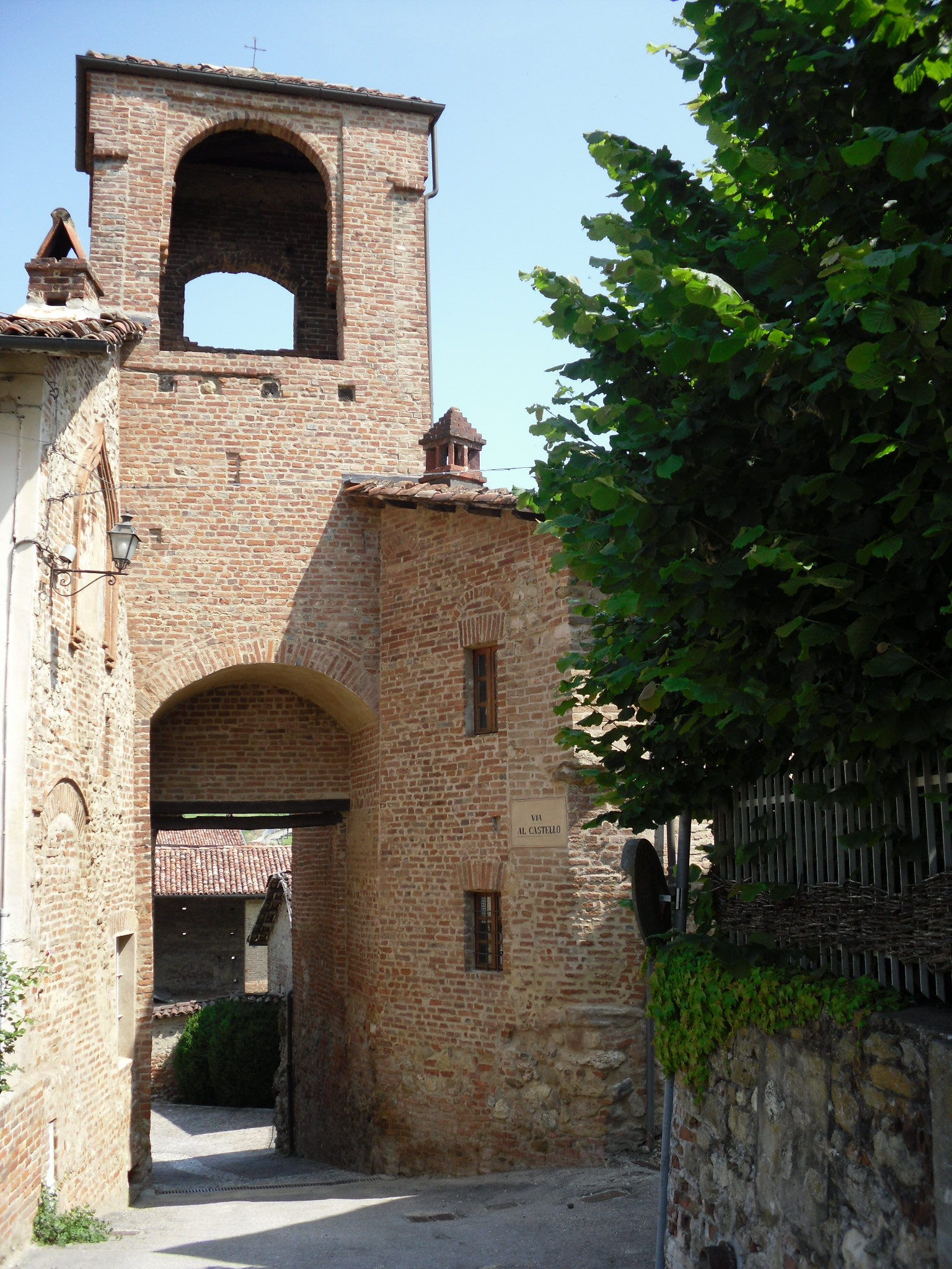 passerano entry